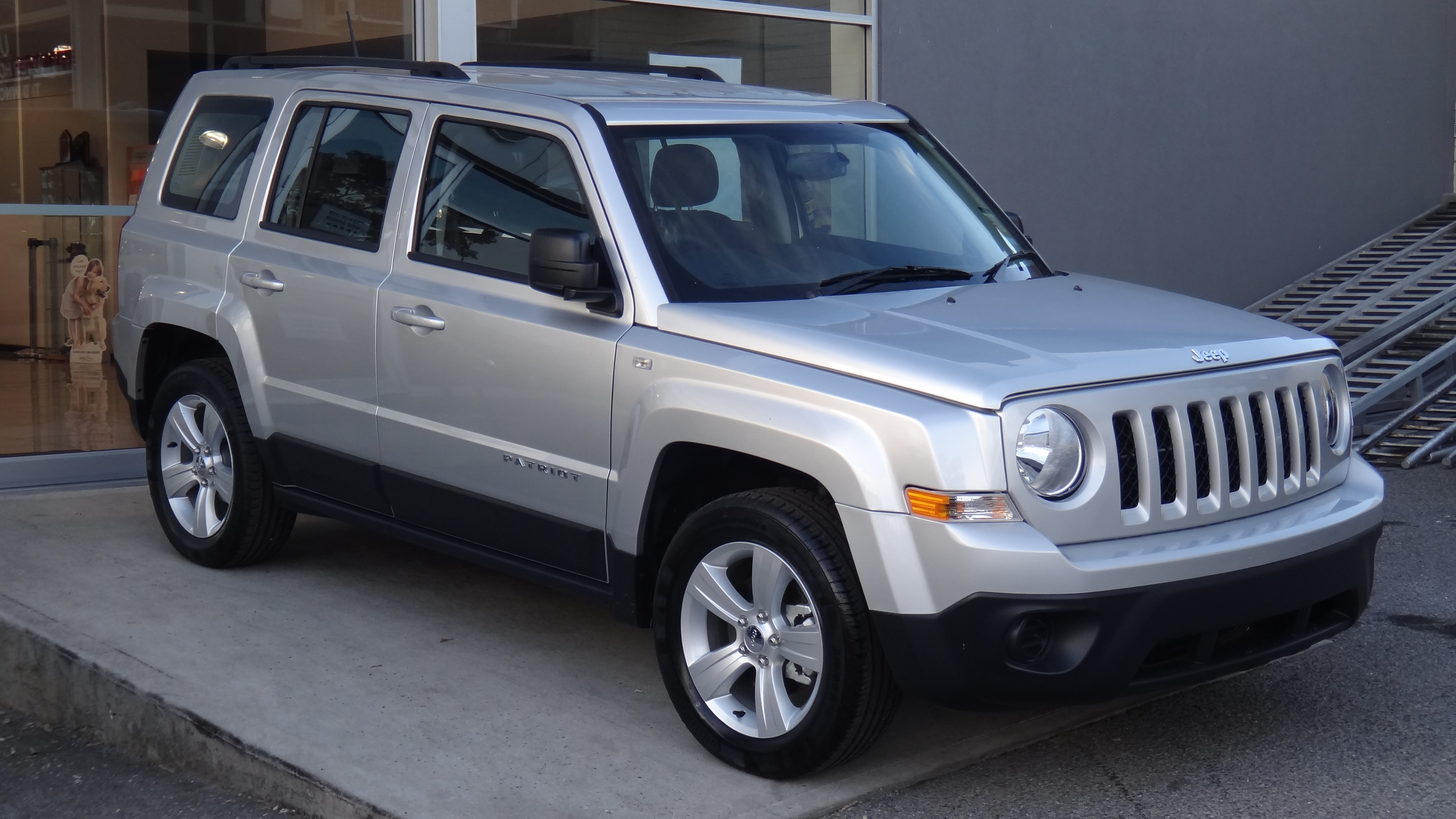 Until the compact Renegade SUV arrives in Australia mid 2015, the Patriot is the cheapest Jeep you can buy here, retailing for $25,500.00AUD. Even though it's the cheapest Jeep you can buy, the Grand Cherokee is by far the biggest selling Jeep in Australia, followed by the Wrangler.